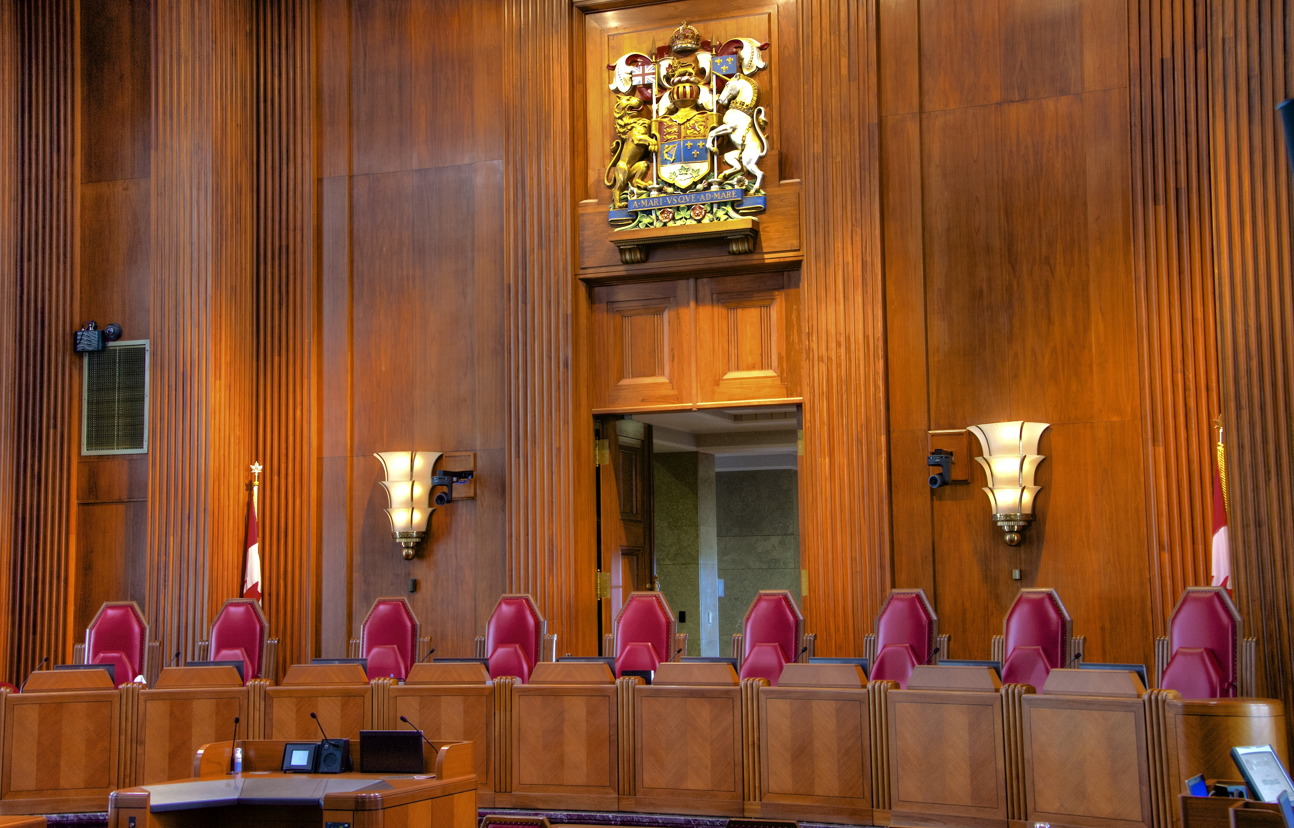 The highest court in the land. The courtroom of the Supreme Court of Canada. Ottawa, Ontario, Canada.